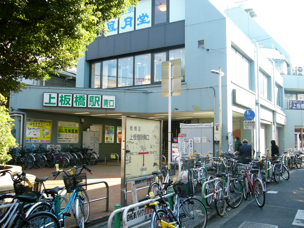 The south entrance of Kami-Itabashi Station on the Tobu Tojo Line